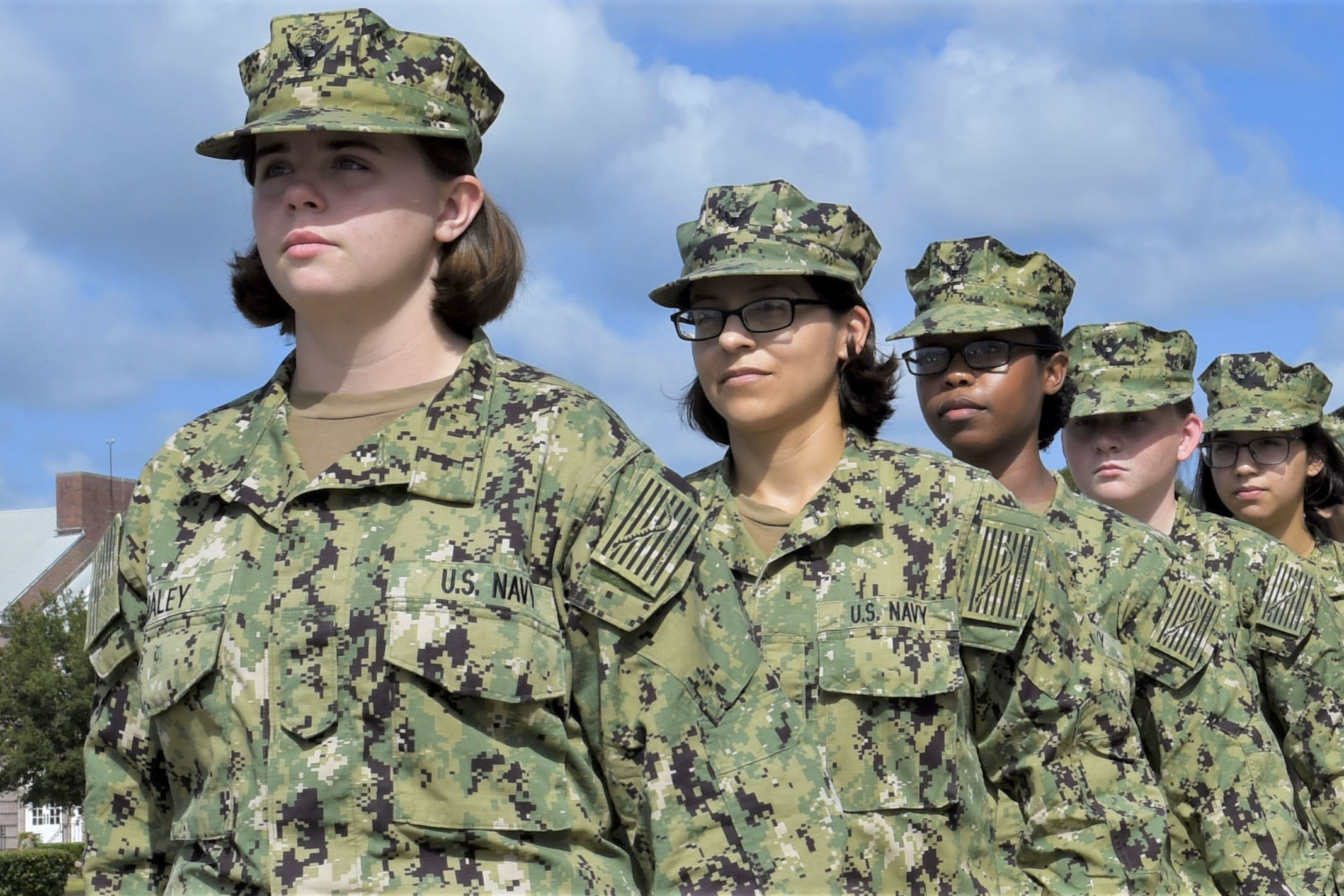 191007-N-KJ380-0007 PENSACOLA, Fla. (October 7, 2019) Sailors attending information warfare courses at Information Warfare Training Command (IWTC) Corry Station prepare to fall into formation onboard Naval Aviation Station Pensacola Corry Station, Pensacola, Florida. These Sailors are just some of the many thousands training and preparing to defend America around the world as information warfare warfighters. IWTC Corry Station is a part of the Center for Information Warfare Training, and with four schoolhouse commands, two detachments, and training sites throughout the United States and Japan, CIWT is recognized as Naval Education and Training Command's top learning center for the past three years. Training over 20,000 students every year, CIWT delivers trained information warfare professionals to the Navy and joint services. CIWT also offers more than 200 courses for cryptologic technicians, intelligence specialists, information systems technicians, electronics technicians, and officers in the information warfare community. (U.S. Navy photo by Mass Communication Specialist 3rd Class Neo B. Greene III/Released)